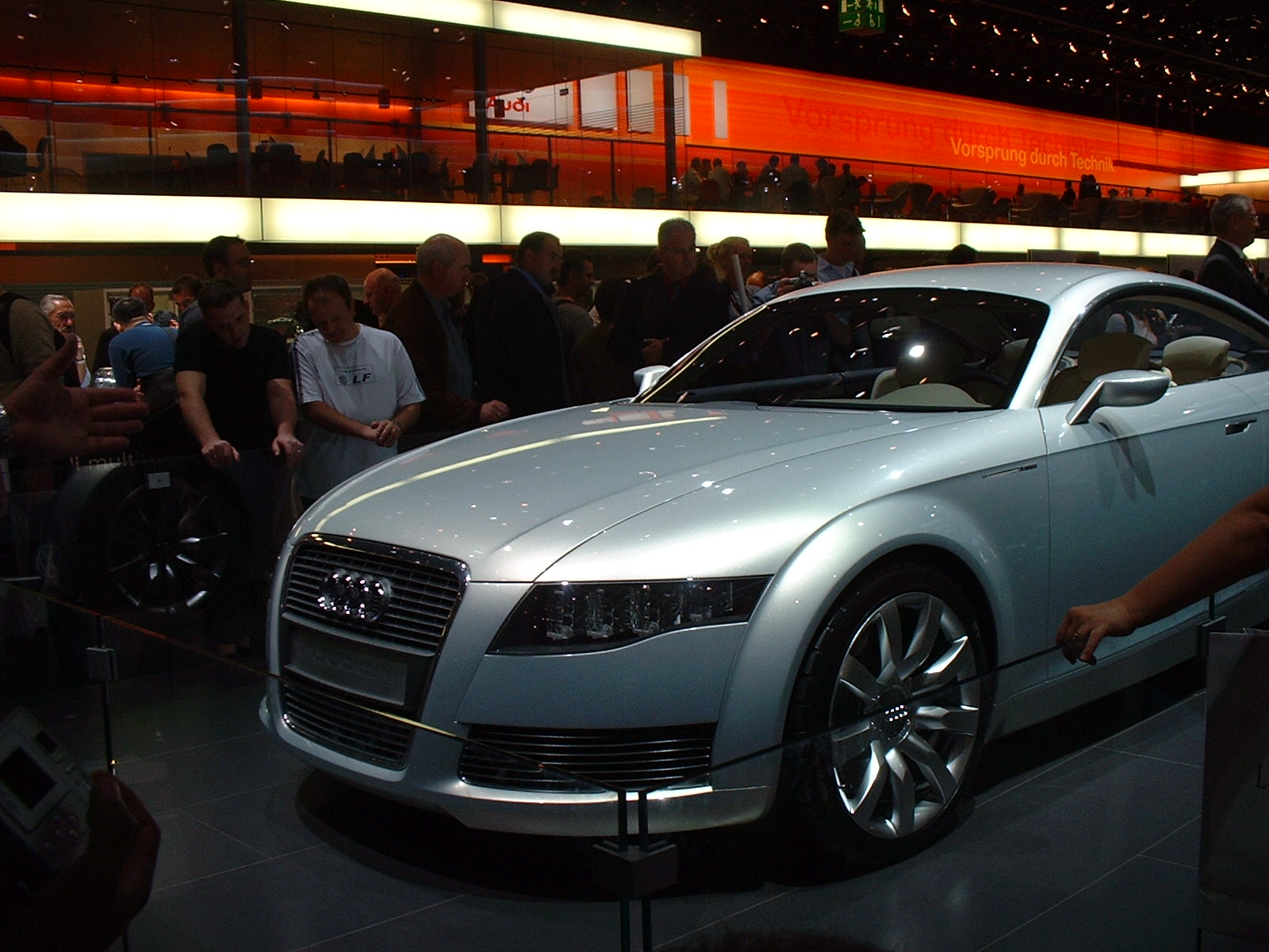 The concept car Audi nuvolari quattro on the Frankfurt Motor Show 2003.